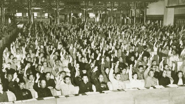 Members were voting in the 1st meeting of the 1st National People's Congress. 中文（中国大陆）: 出席第一届全国人民代表大会第一次会议的代表举手表决。